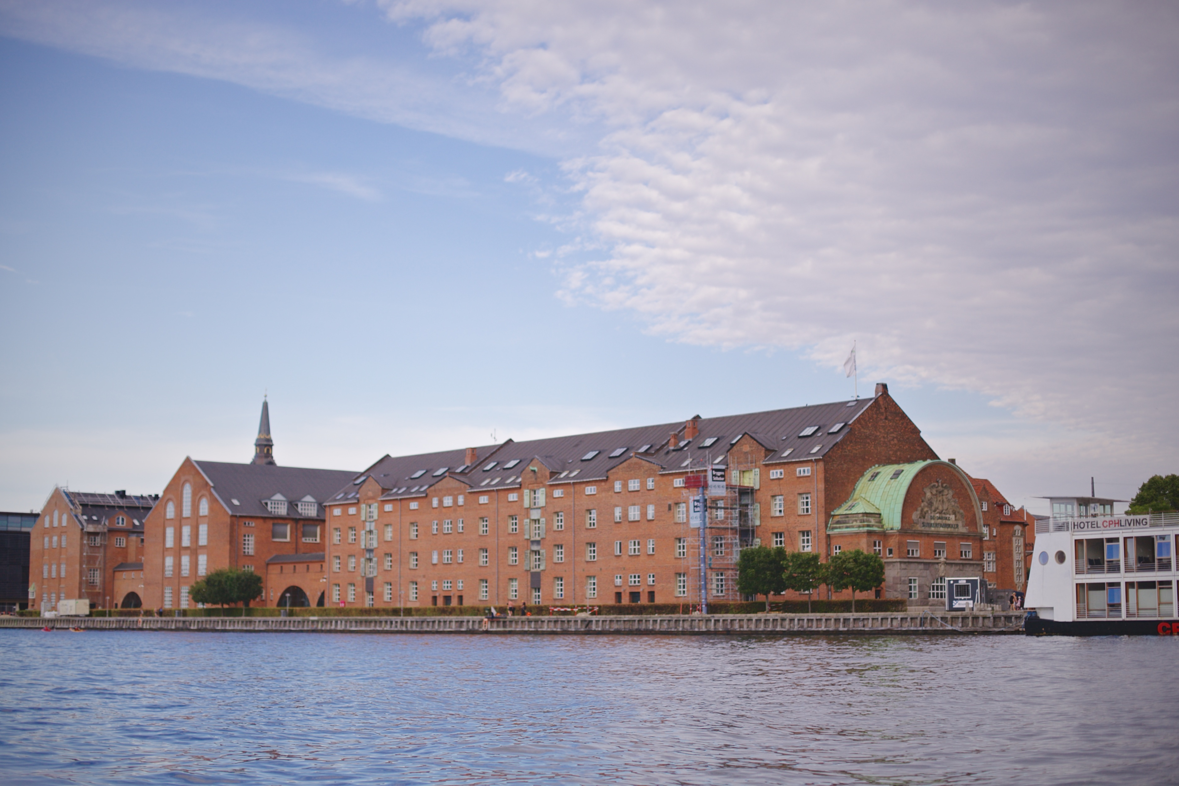 Applebys Plads seen from the Water in Copenhagen, Denmark